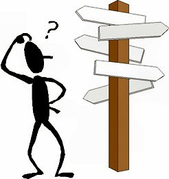 Man looking at signs